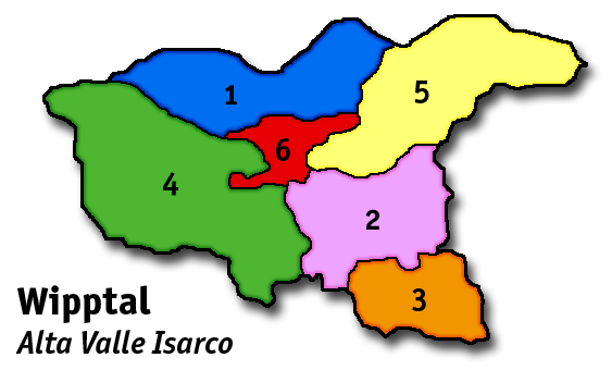 Map of municipalities of Wipptal, South Tyrol Own work.